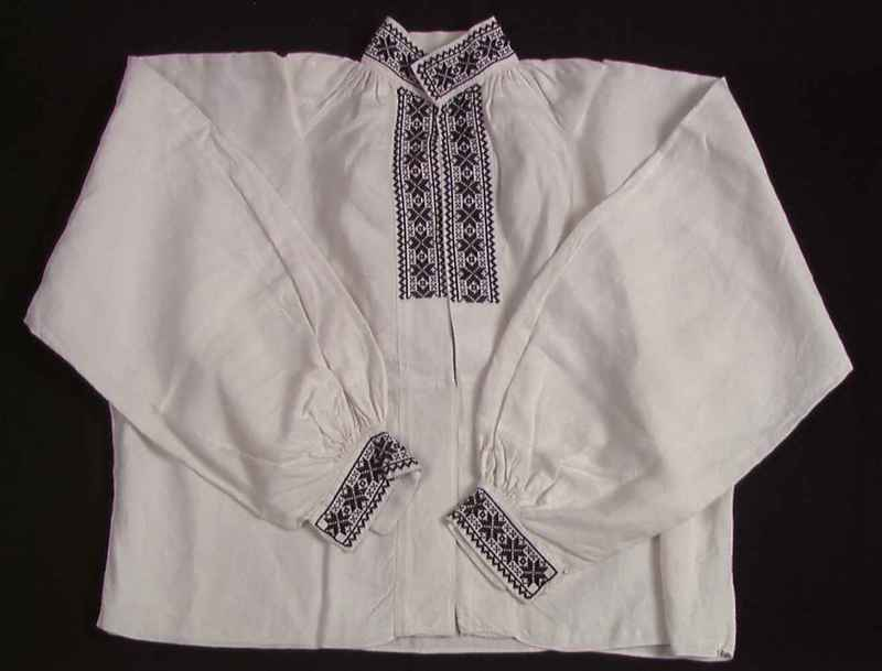 Women's shirt from Voss decorated with black embroidery